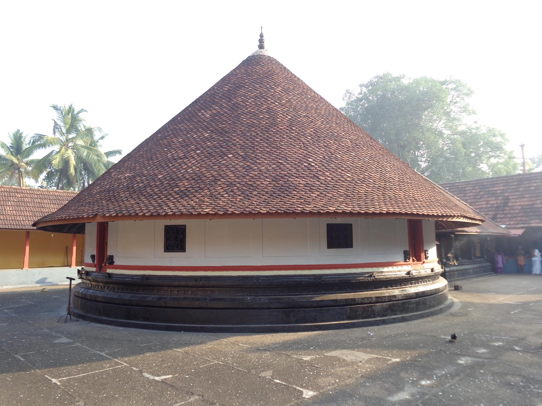 the sanctum of kannamangalam south temple, mavelikara